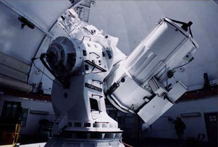 Haleakala Observatory — The 1.6 Meter telescope installed on a high-performance three-axis mount enables easier tracking of objects that orbit in planes other than the Earth's equatorial plane.